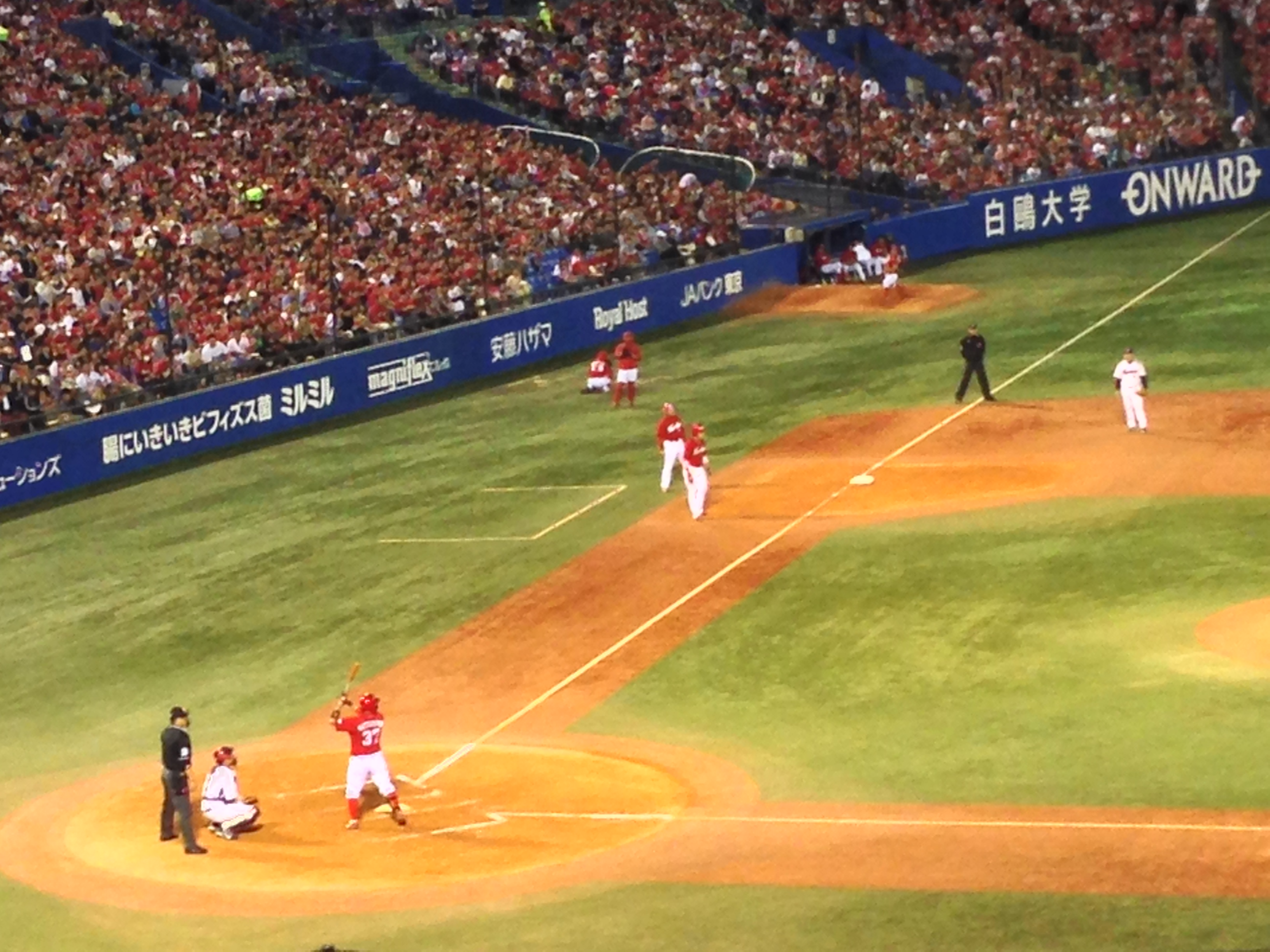 Night game at Meiji Jingu Stadium (明治神宮野球場), Carp versus Swallows. Player number 37, Ryuhei Matsuyama (松山 竜平) of the Carp gets ready to hit at a ball.